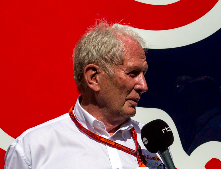 Helmut Marko at the 2016 Austrian Grand Prix